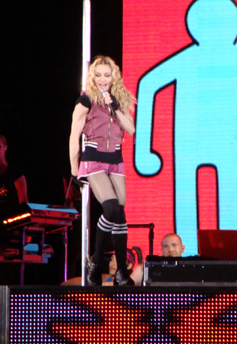 Madonna Day